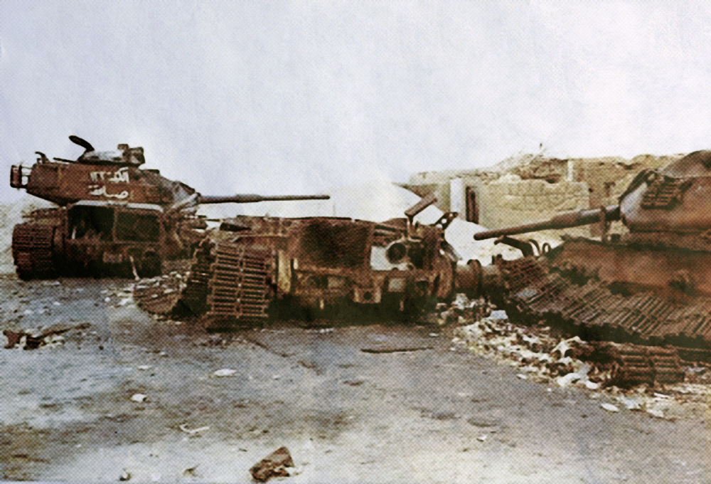 Destroyed IDF tanks by Egyptian Al-Saeqa at Abu Attva village near Ismailia.